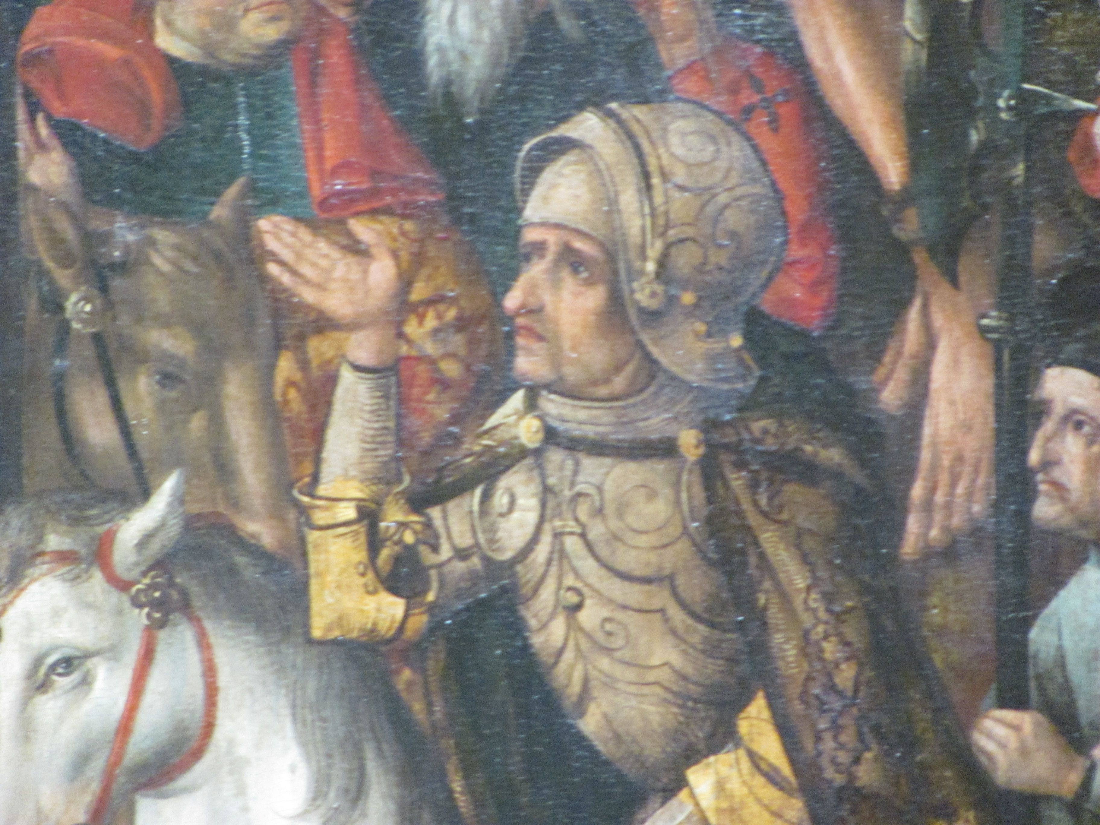 Count Philipp I of Hanau-Muenzenberg on the altar-painting of the Woerther Altar